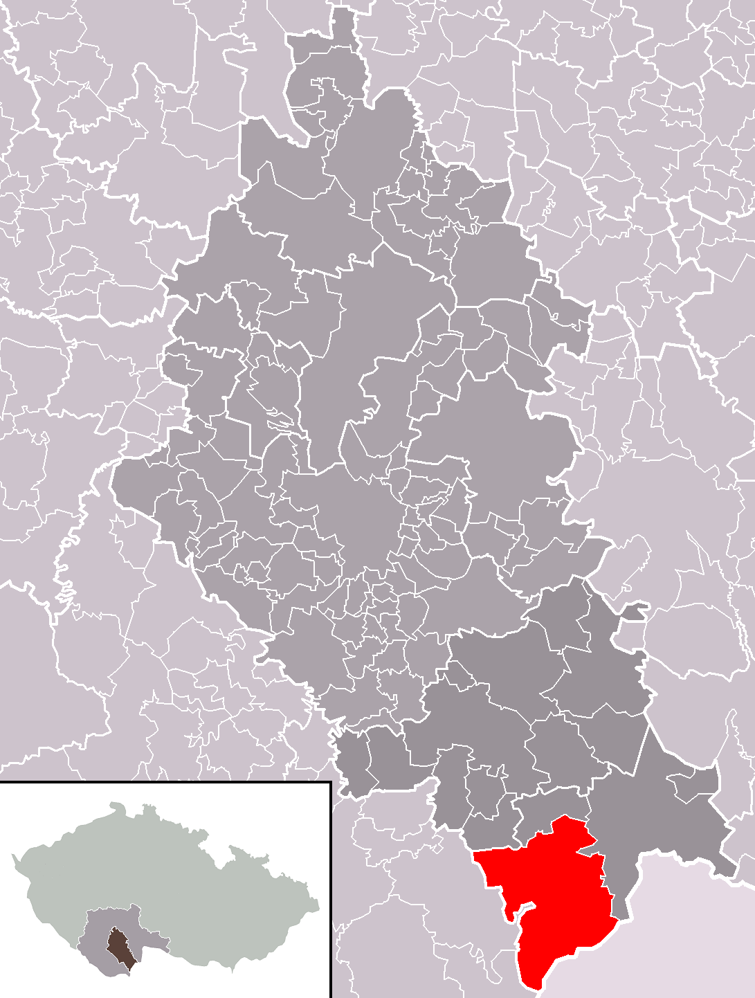 Location of Horní Stropnice municipality within České Budějovice District and administrative area of Trhové Sviny as a Municipality with Extended Competence.